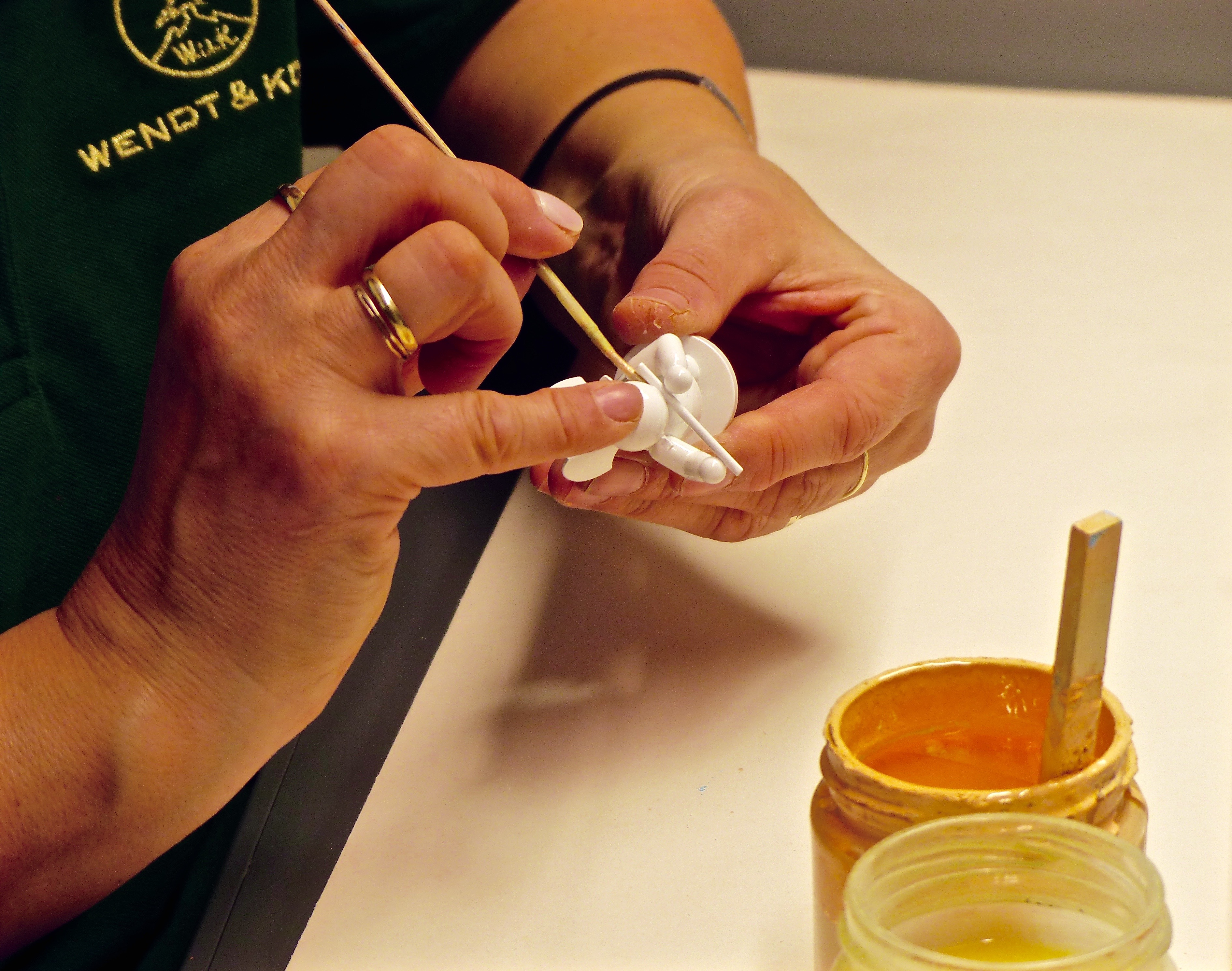 Gruenhainicher angels (Wendt & Kühn, Saxony): handmade - painting of angels